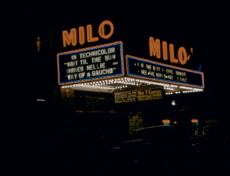 Milo Theater 1821 S. Loomis Street , Chicago, IL, United States Chicago - Pilsen